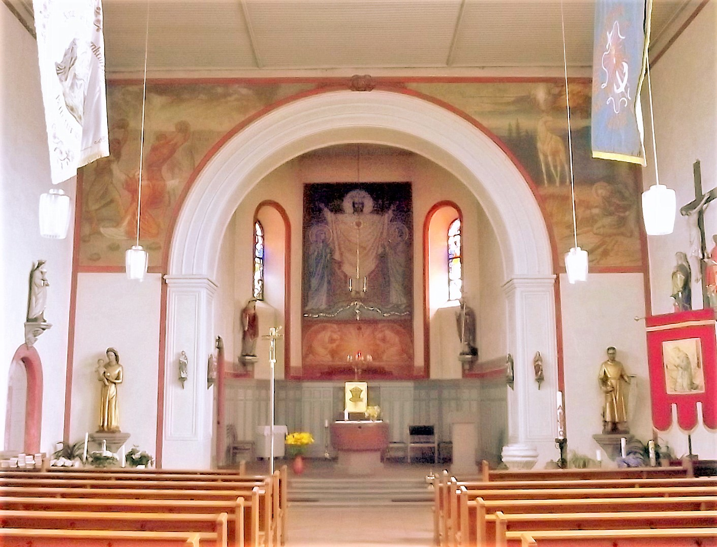 Interior of the roman catholic church in Faha, Saarland, Germany